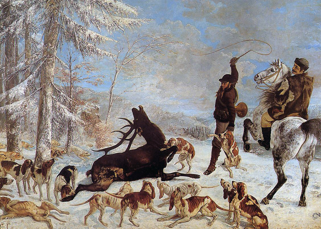 It's a painting by Gustave Courbet in Museum of Fine Arts of Besançon. It's an oil on canvas of 11 x 16 ft. (355 x 505 cm)